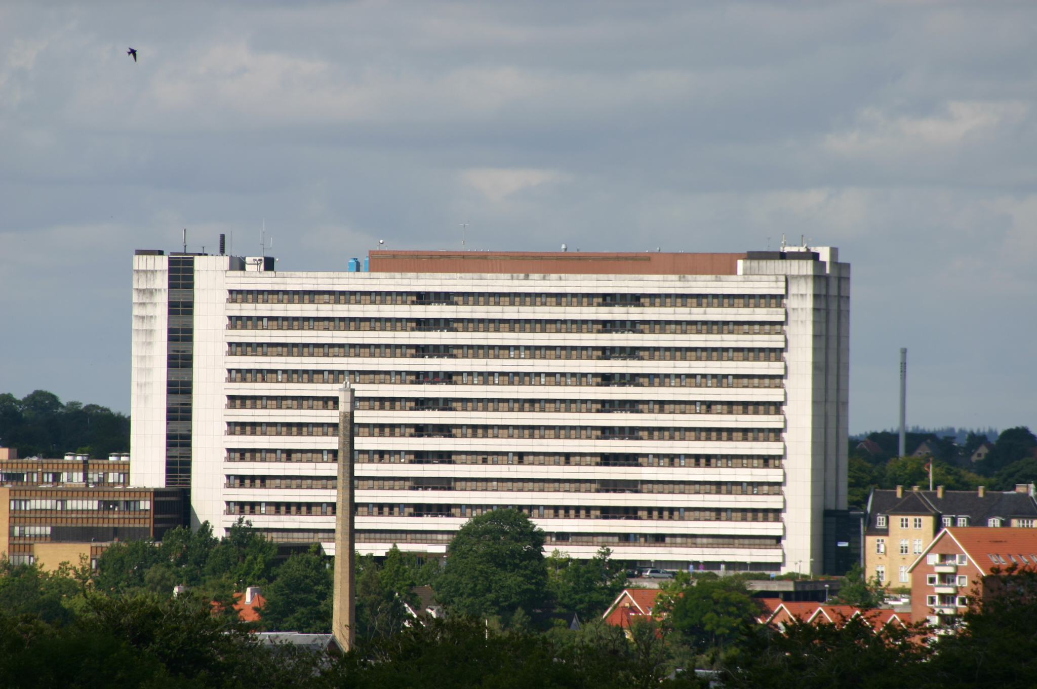 Regional Hospital of Viborg, Denmark.